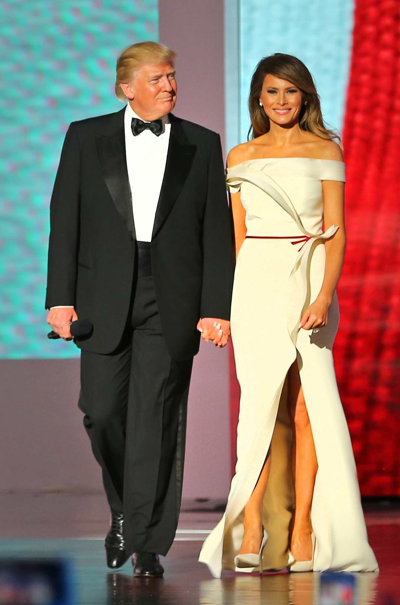 President Donald J. Trump arrives at the Liberty Ball while the U.S. Air Force Band plays "Hail to the Chief" at the Walter E. Washington Convention Center, Washington, D.C., Jan. 20, 2017. More than 5,000 military members from across all branches of the armed forces of the United States, including Reserve and National Guard components, provide ceremonial support and Defense Support of Civil Authorities during the inaugural period. Melania Trump wears an off-the-shoulder gown by Hervé Pierre. (DoD photo by U.S. Army Sgt. Ashley Marble)